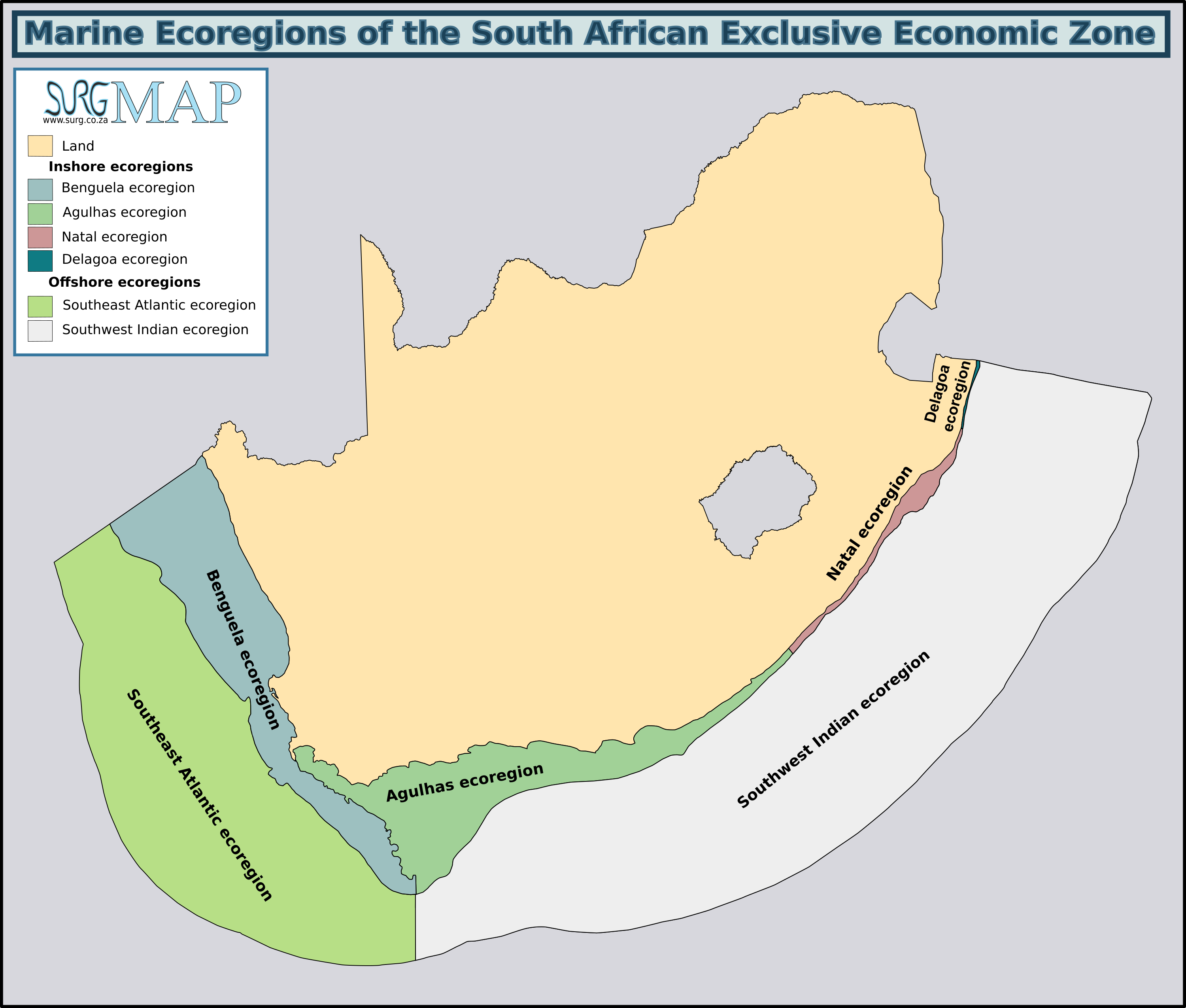 Map of the Ecoregions of the South African Exclusive Economic Zone 2011